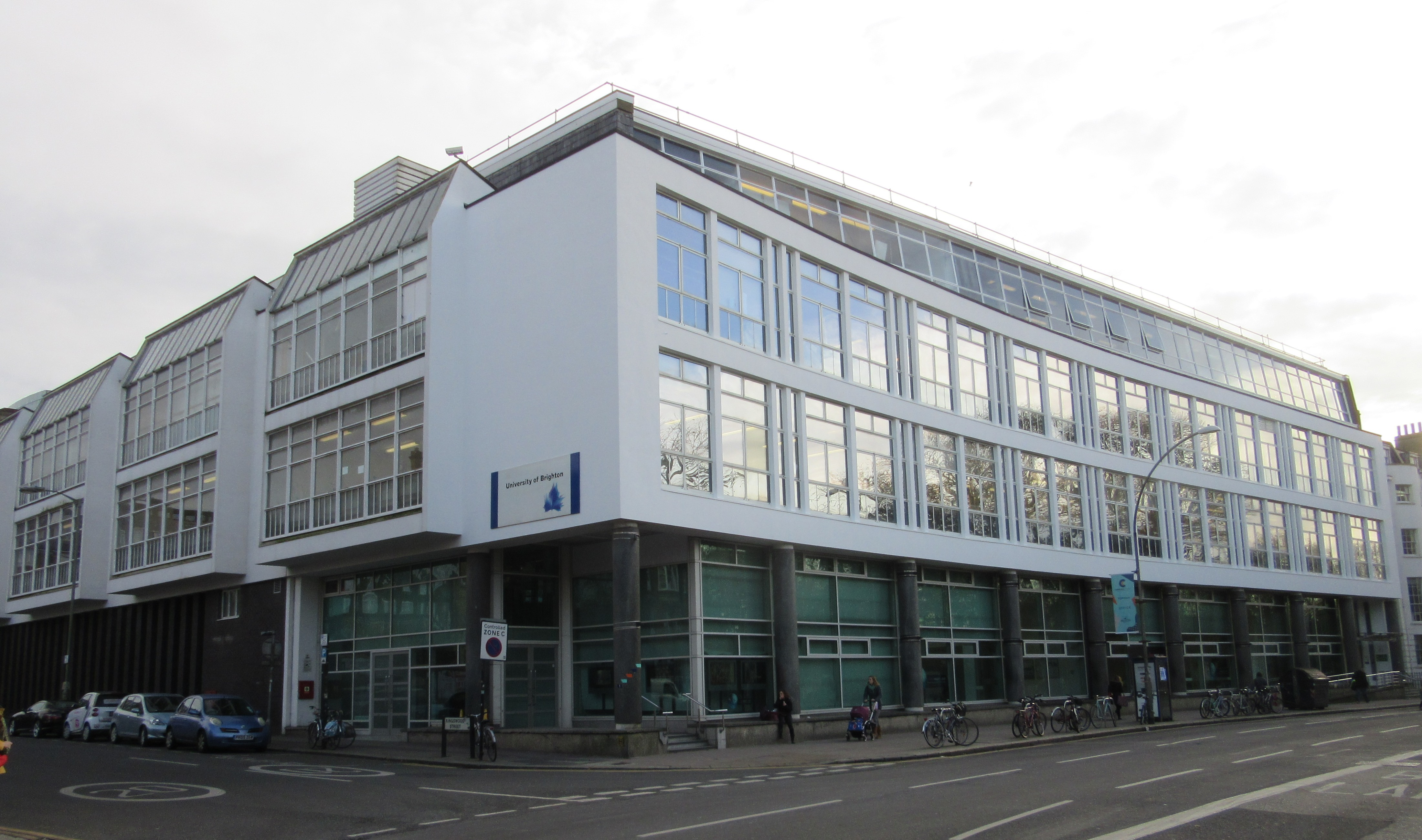 University of Brighton Faculty of Art and Design building, Grand Parade, Brighton, City of Brighton and Hove, England. A locally listed building designed by Percy Billington between 1962 and 1967 for Brighton Polytechnic (as it was then). Billington was the Brighton Borough Architect.